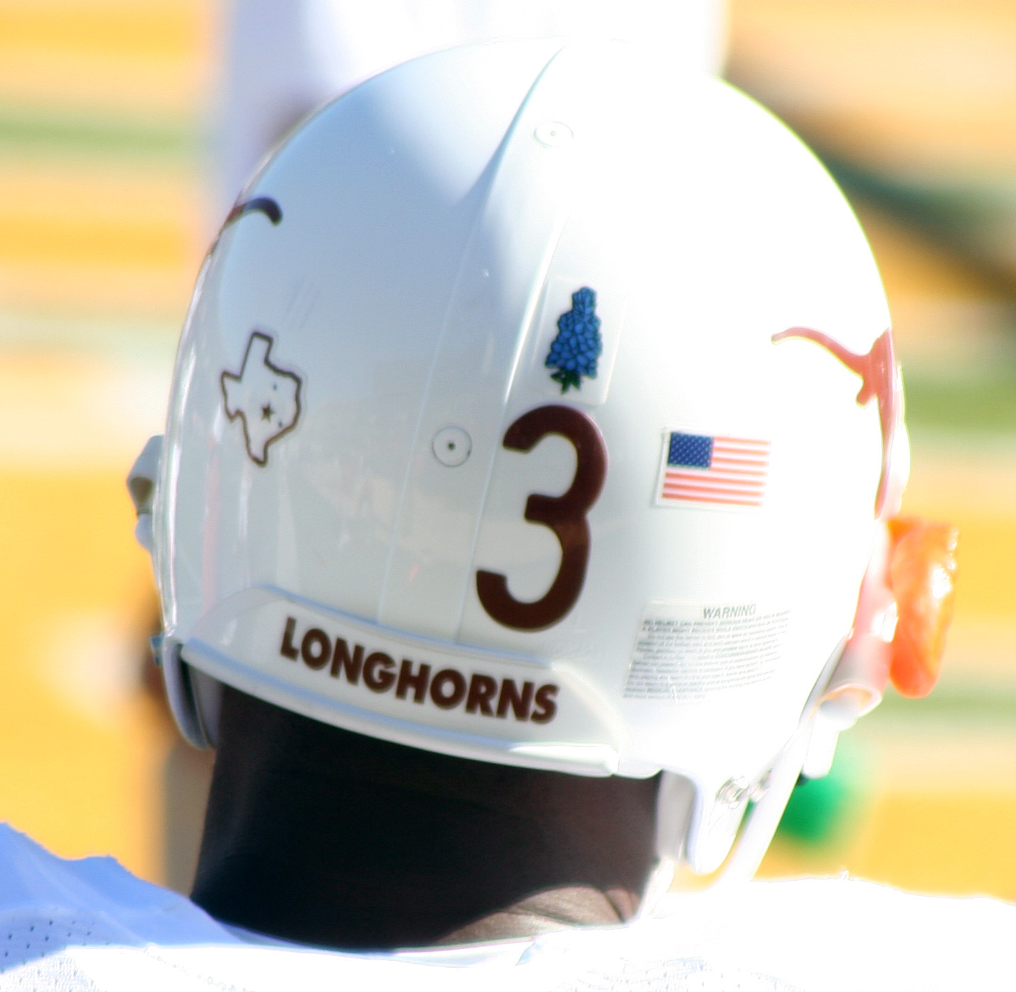 The 2007 Texas Longhorn football team wore a bluebonnet sticker on their helmets in honor of the late Lady Bird Johnson, former first lady of the United States